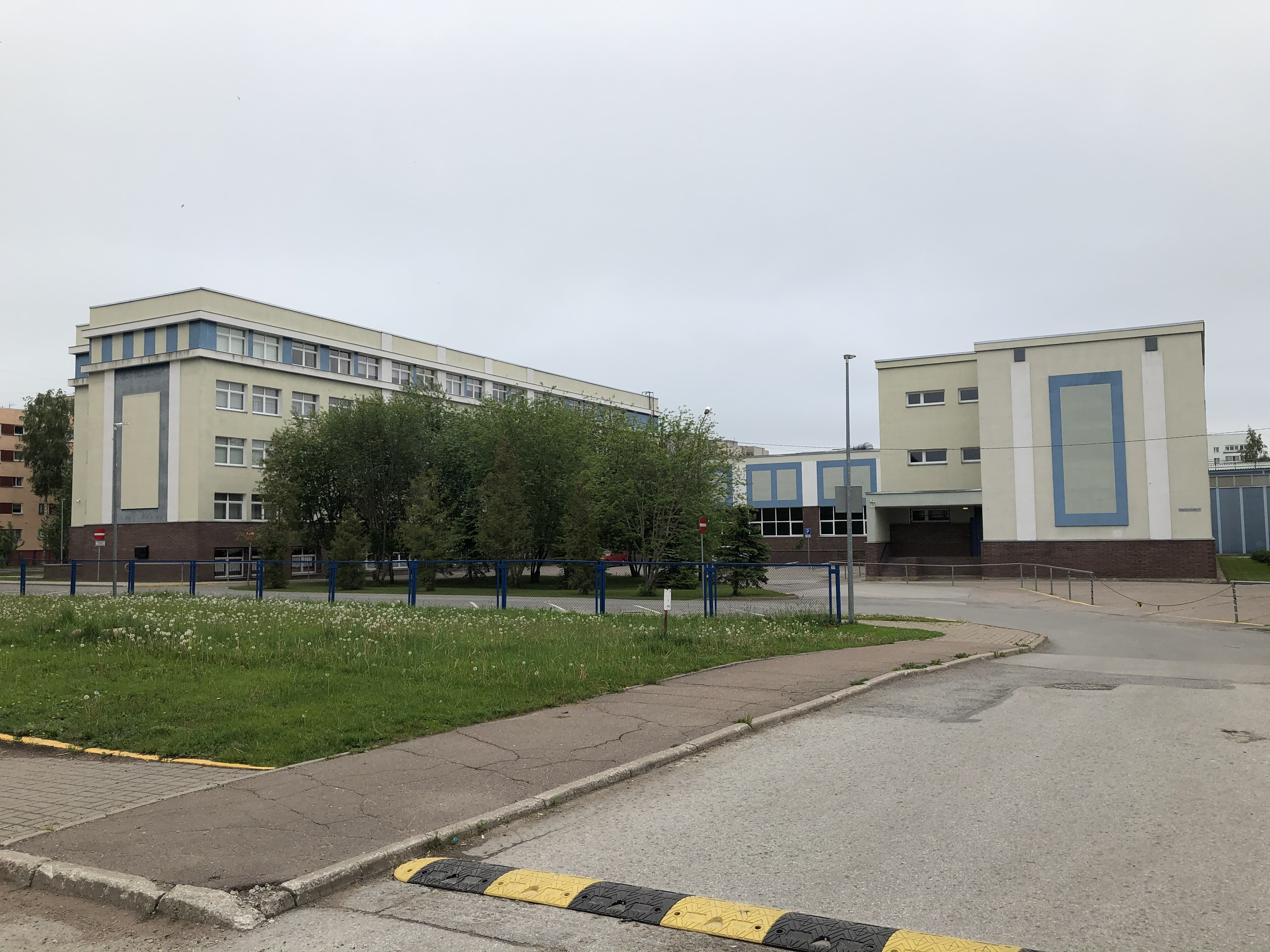 Secondary school in Narva, Estonia